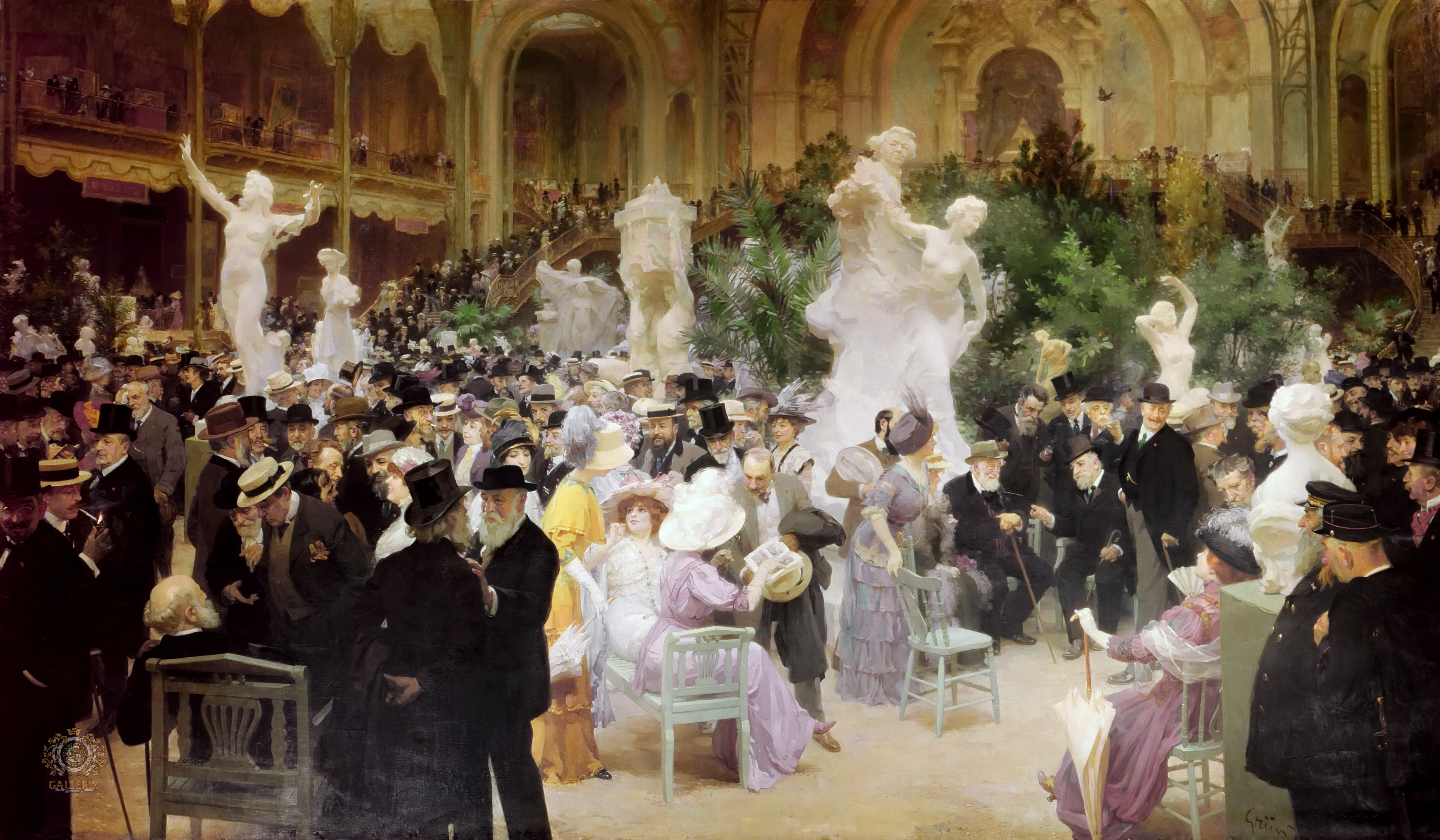 Öèôðîâàÿ ðåïðîäóêöèÿ íàõîäèòñÿ â èíòåðíåò-ìóçåå Gallerix.ru